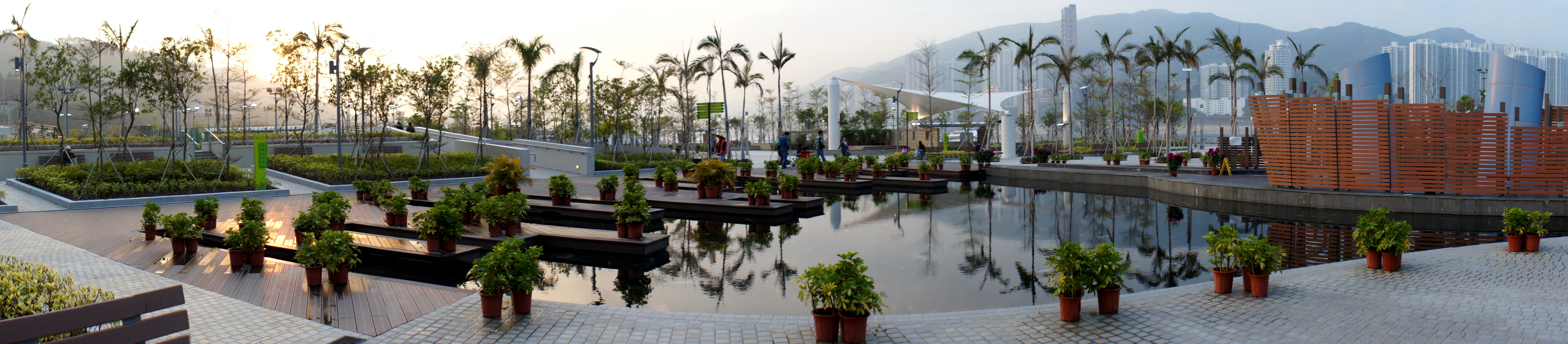 The water landscape in Tsing Yi Northeast Park, Hong Kong.